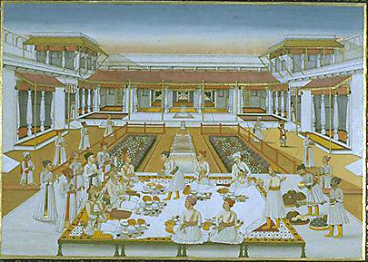 Navab Imad ul-Mulk, a mid-18th-century kingmaker, holds a banquet (a page from the Lady Coote album, c.1780), with ZOOM capabilities* (FAMSF)